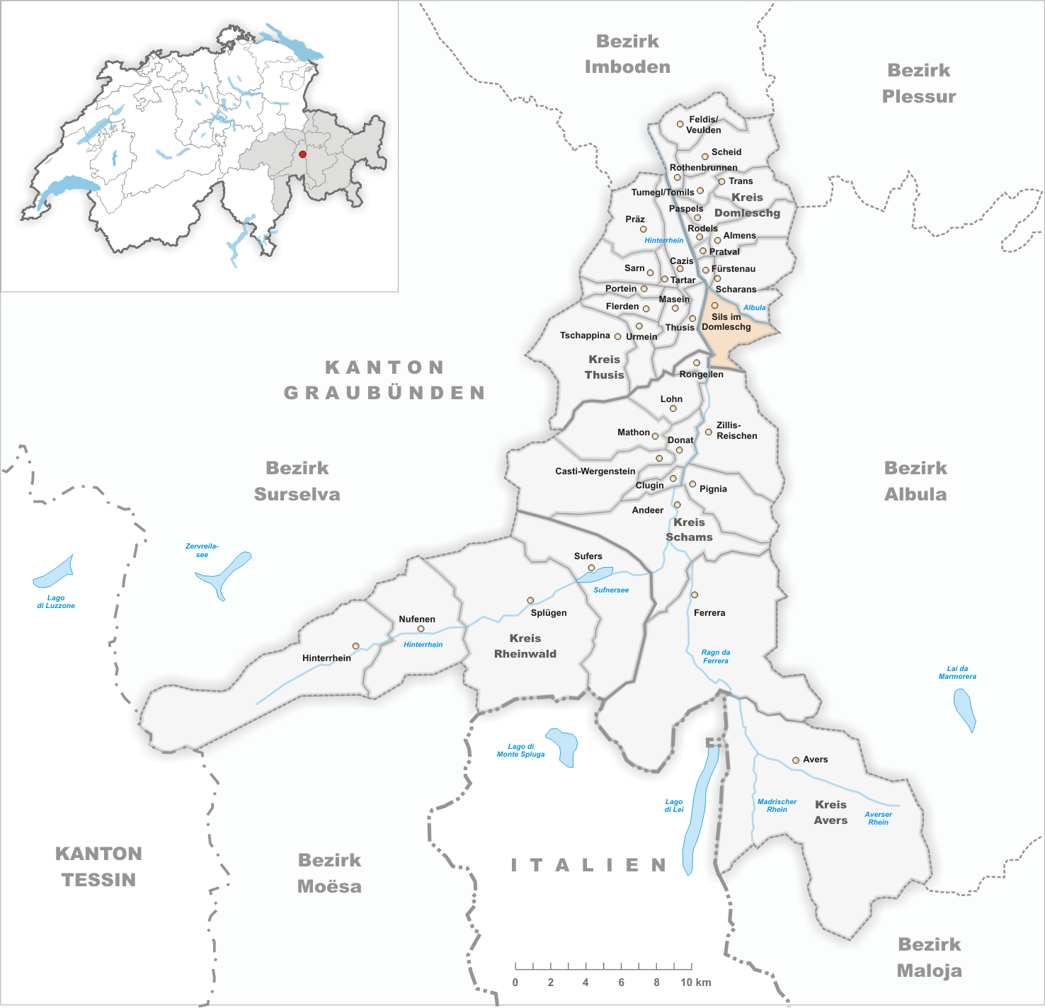 Municipality Sils im Domleschg